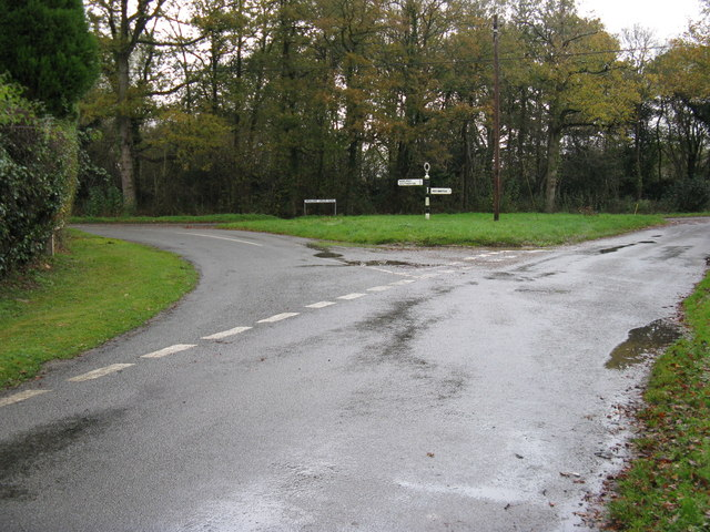 Three way junction at Dragons Green Dragons Green road runs left to right while Baker's Lane is behind the camera